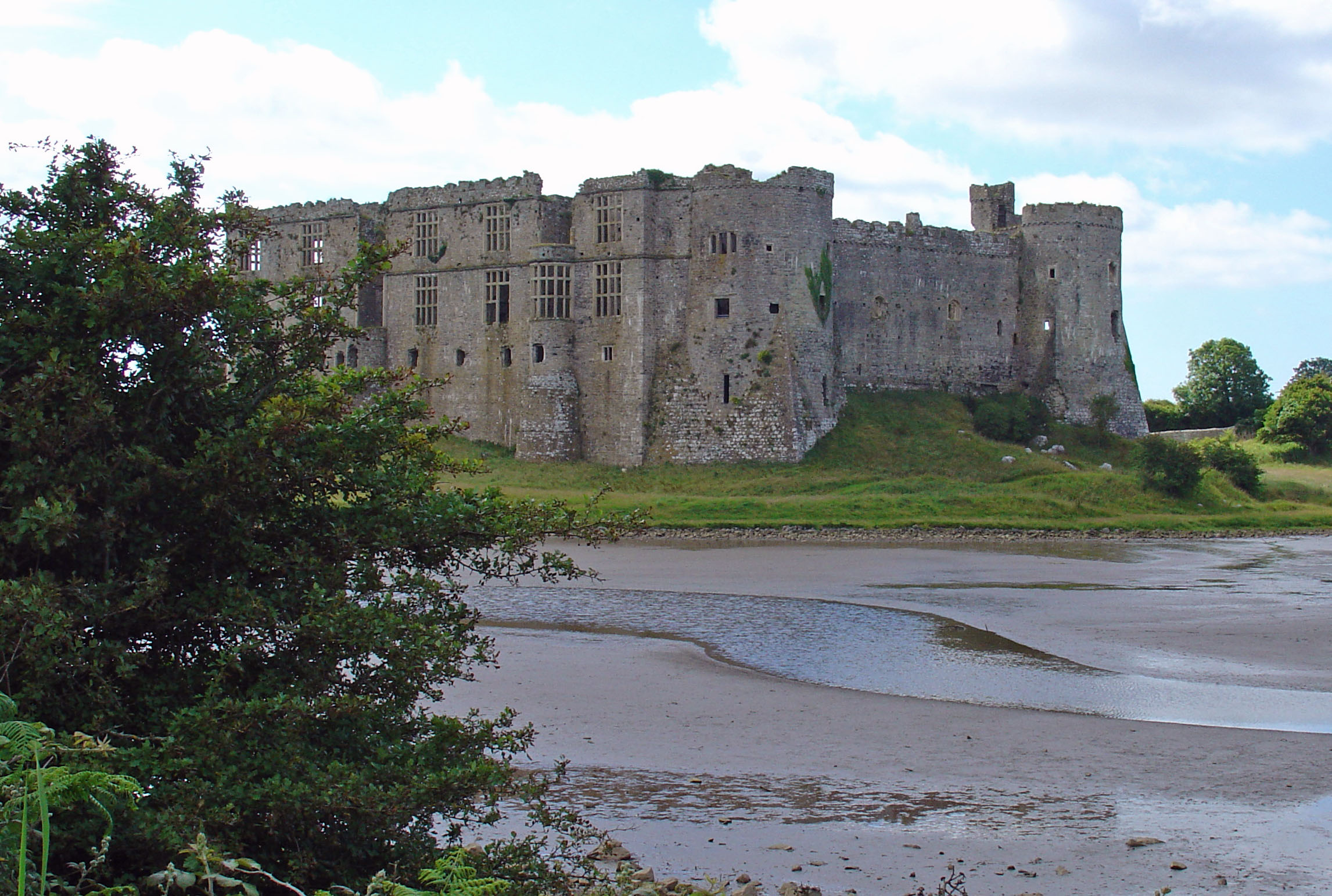 Carew Castle, Pembrokeshire, Wales. View across the Carew river from the north-west.